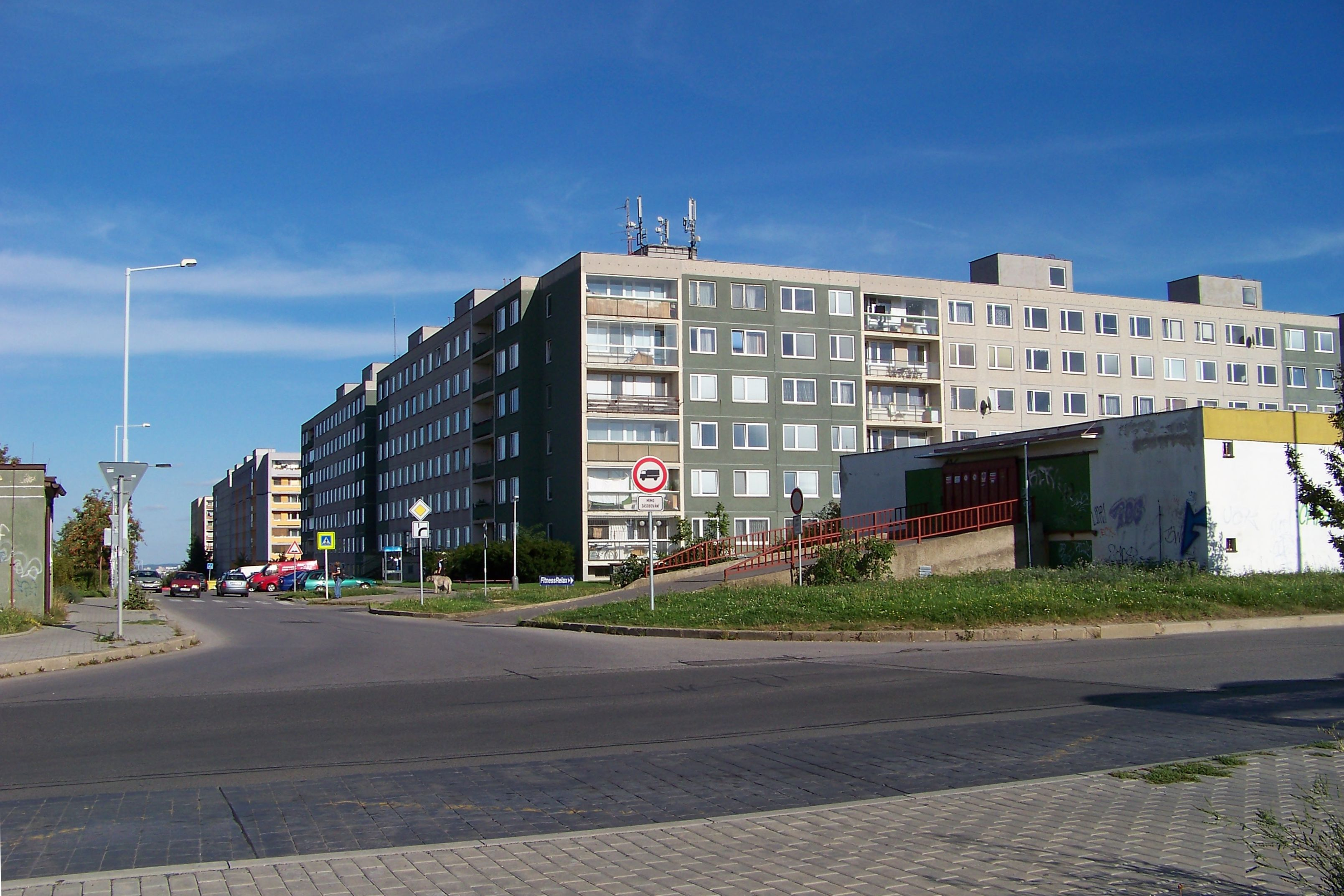 Prague-Stodůlky-Velká Ohrada Housing Estate, the Czech Republic, seen from Červeňanského street. - OpenStreetMap(Info)